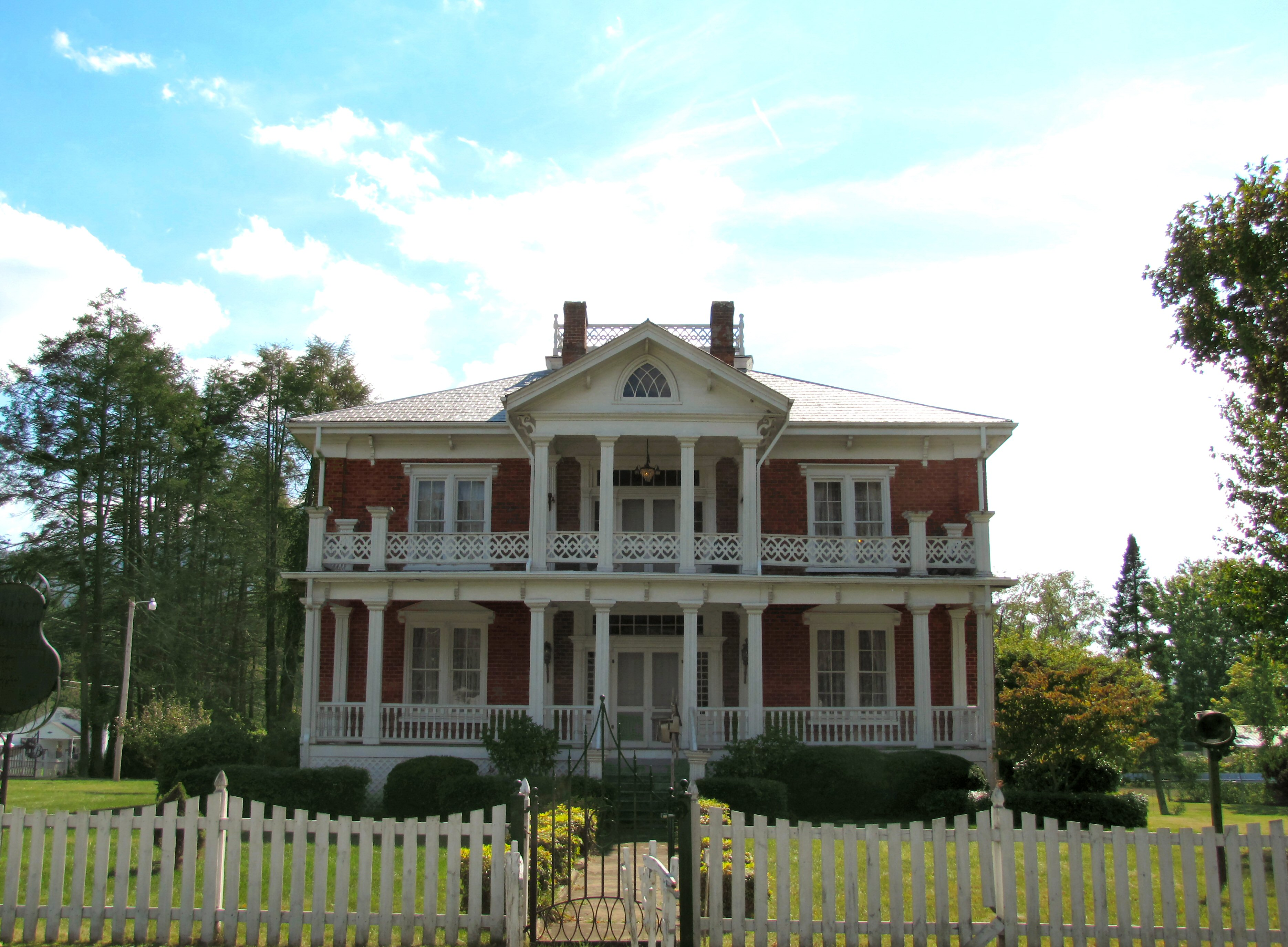 Butler Mansion in Hampton, Tennessee, United States. Built in 1867, this house is now listed on the National Register of Historic Places.